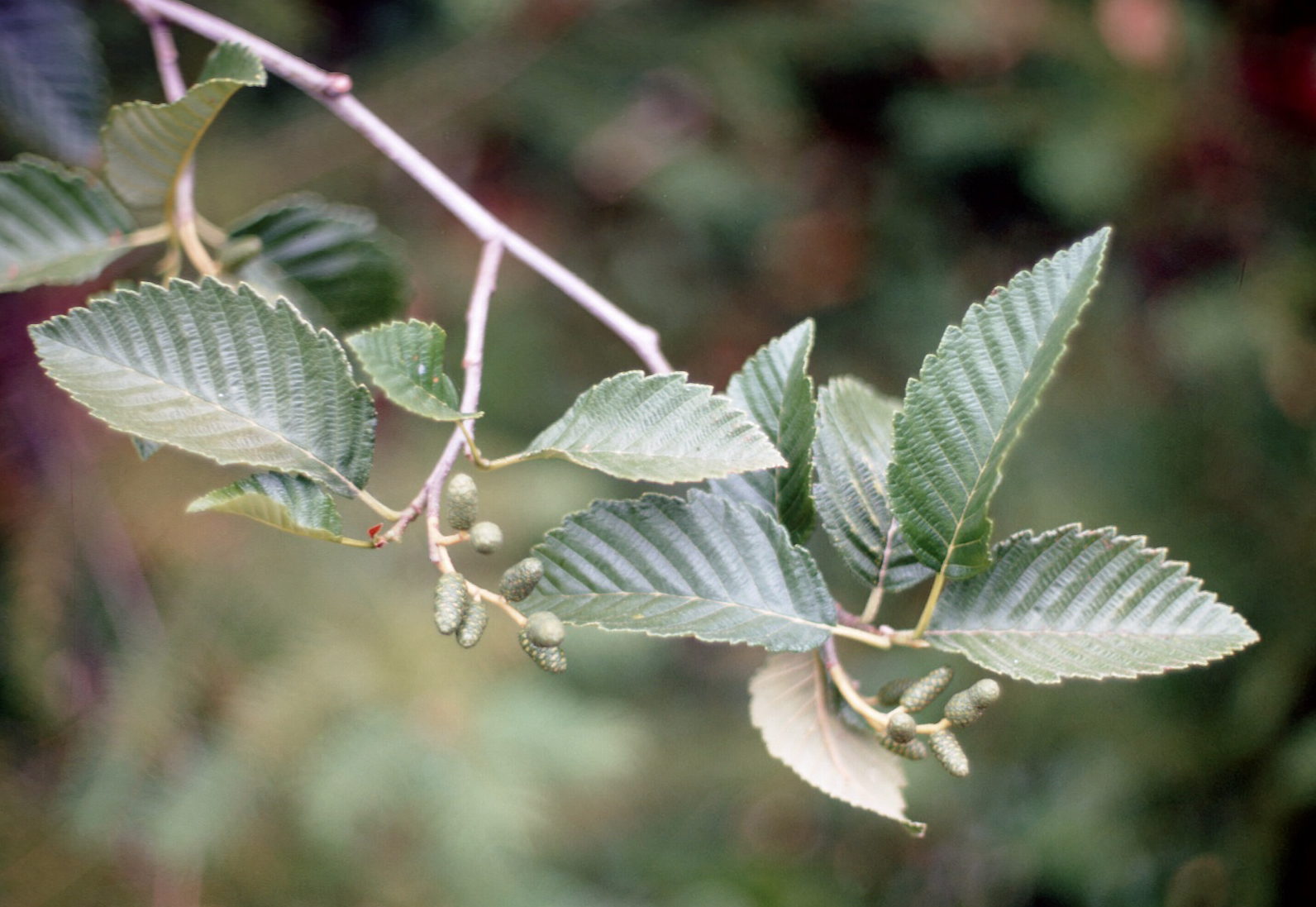 Alnus incana subsp. tenuifolia — mountain alder, creek alder. Summer foliage, growing in California. Native to the Western United States and Canada.